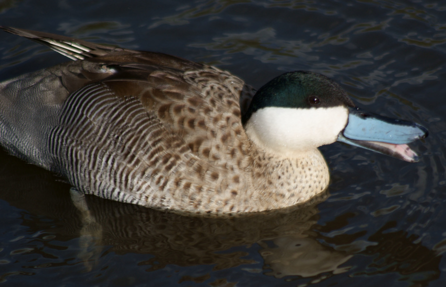 Anas_puna - Puna Teal